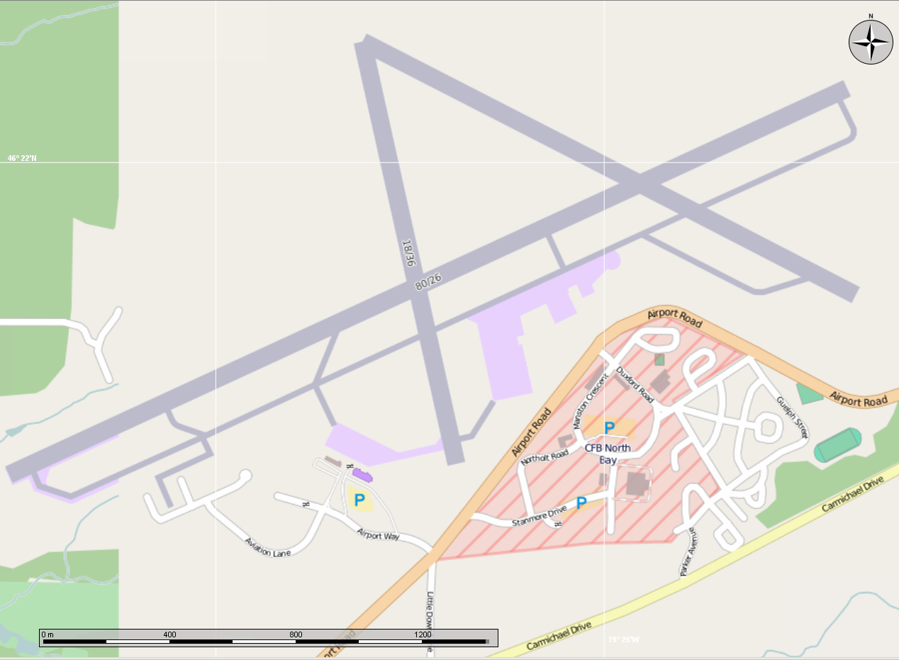 Map showing the North Bay Airport and CFB North Bay (in red) at the bottom of the image. Open Street Map from the Marble program.